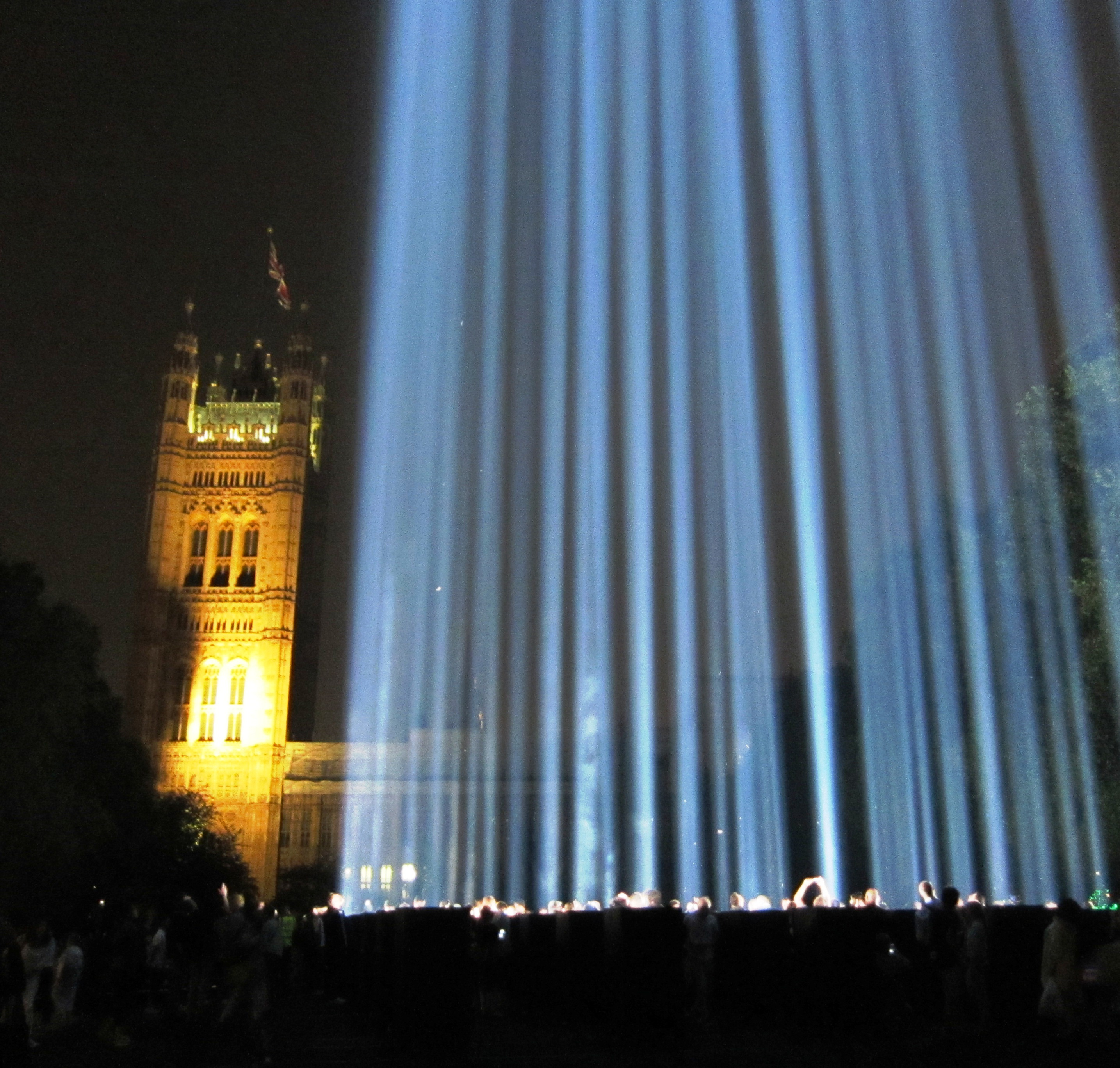 spectra (installation) picture